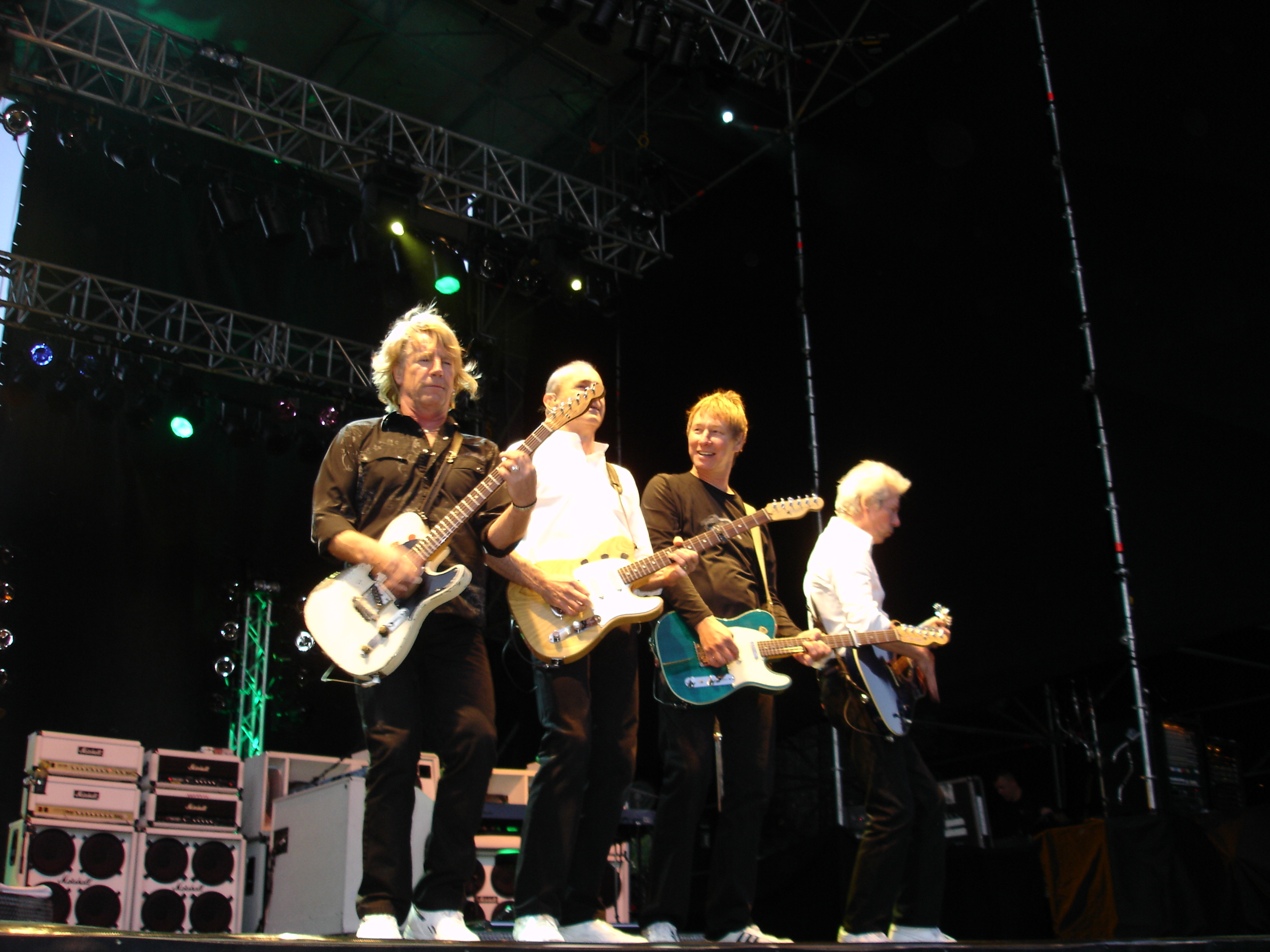 Photo of Status Quo during their July 2006 show in Luleå, Sweden. Taken by me, Jesper Sandström, and hereby released to the public domain. From left to right : Rick Parfitt, Francis Rossi, John Edwards and Andrew Bown. Drummer Matt Letley is behind his kit ;)